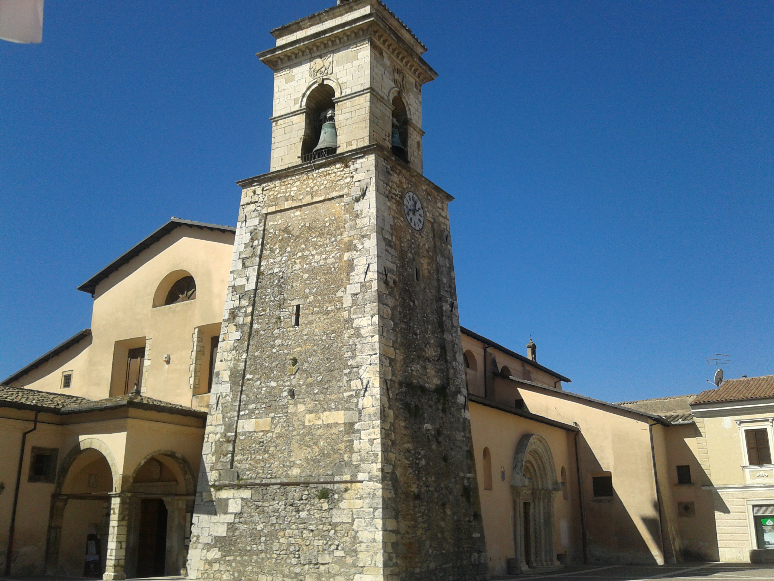 SS. Cesidio e Rufino church, Trasacco, Abruzzo, Italy